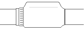 A picture of a generic bore evacuator, loosely based off the kind on the M1A2 Abrams. Created by myself on April 30th, 2006. Feel free to use this. —Buechner 08:07, 30 April 2006 (UTC)